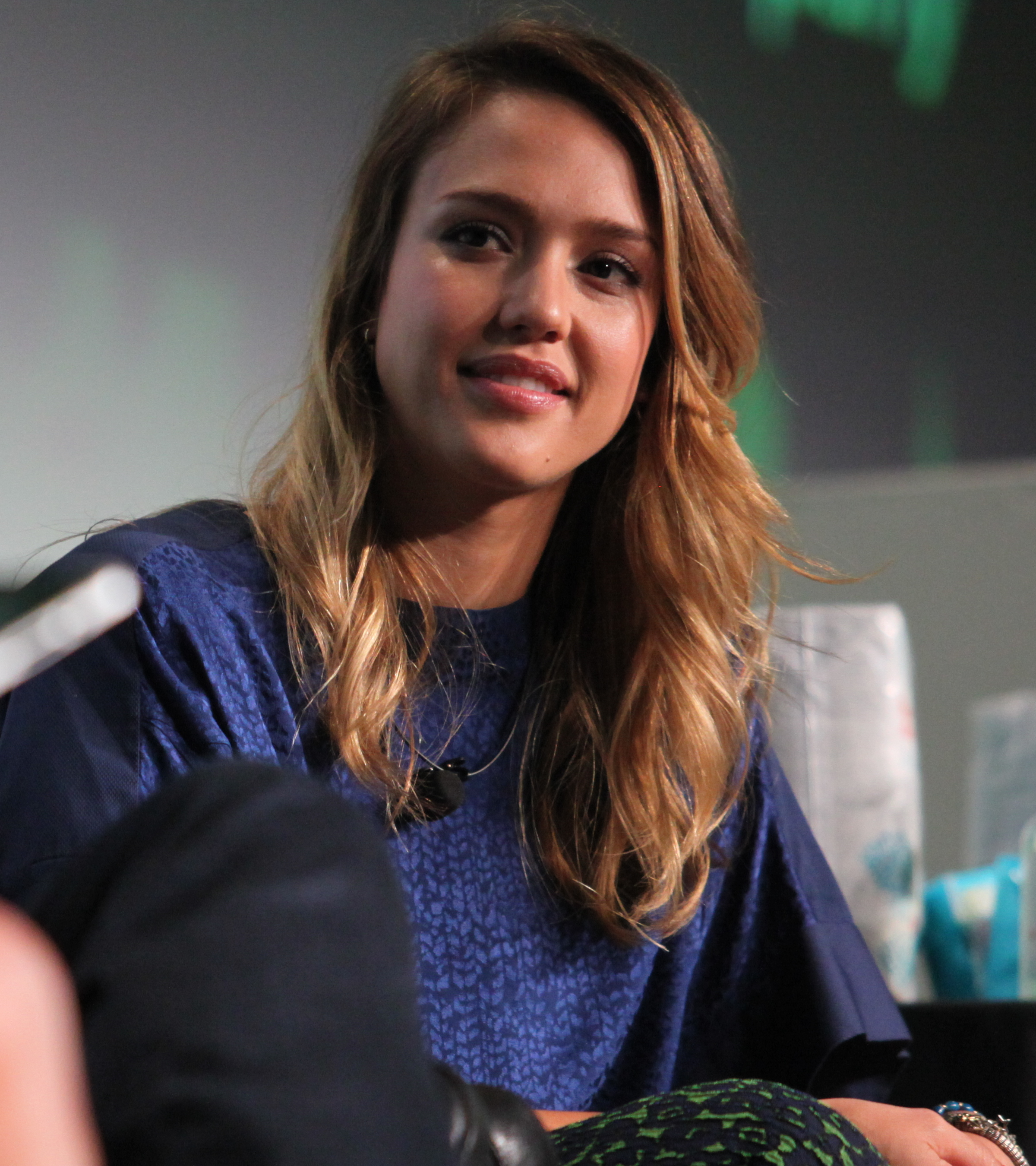 Jessica Alba at TechCrunch Disrupt San Francisco 2012.